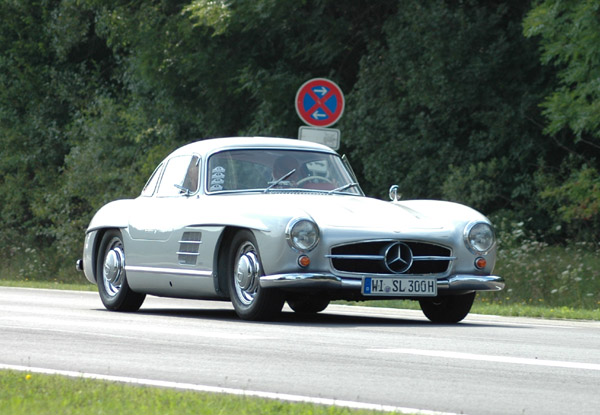 Mercedes 300SL Gullwing gray at Nürburgring 2006